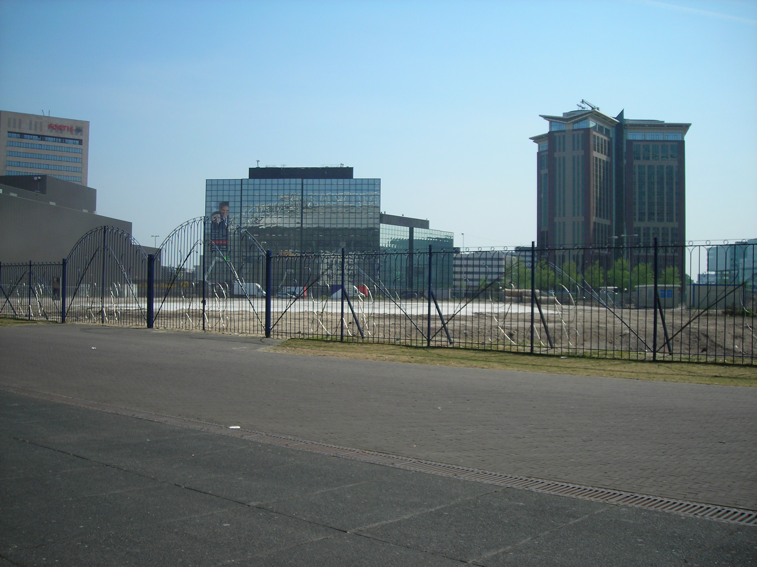 The former Pepsi Stage terrain